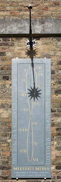 A reconstruction of a long lost mean time Noon-Mark, "unveiled" at the Royal Observatory at Greenwich on 10th October 2012.